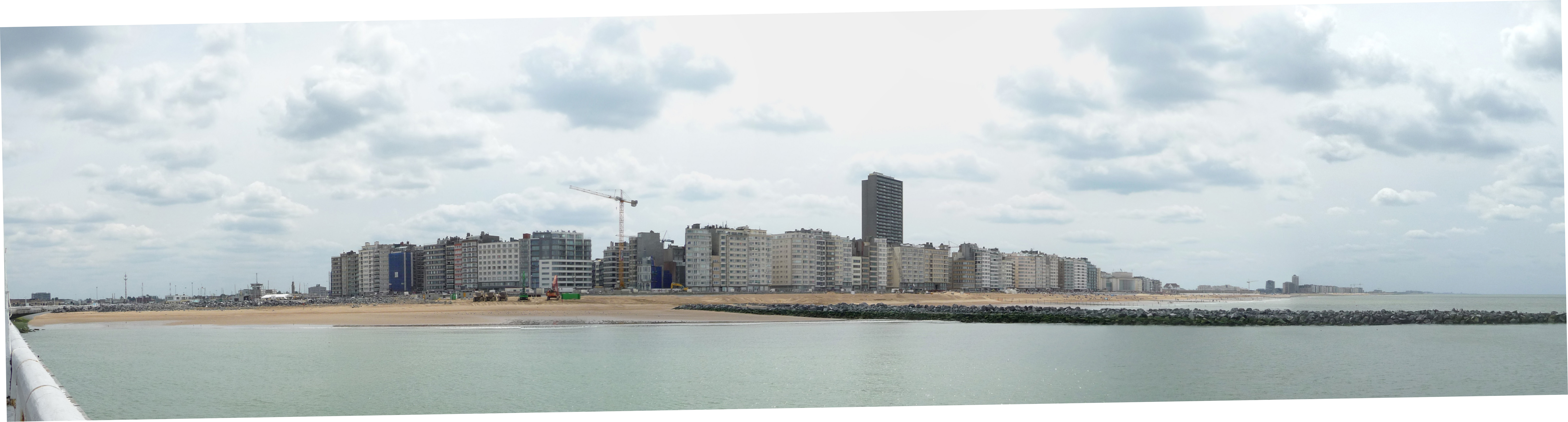 Panorama of Ostende, Belgium